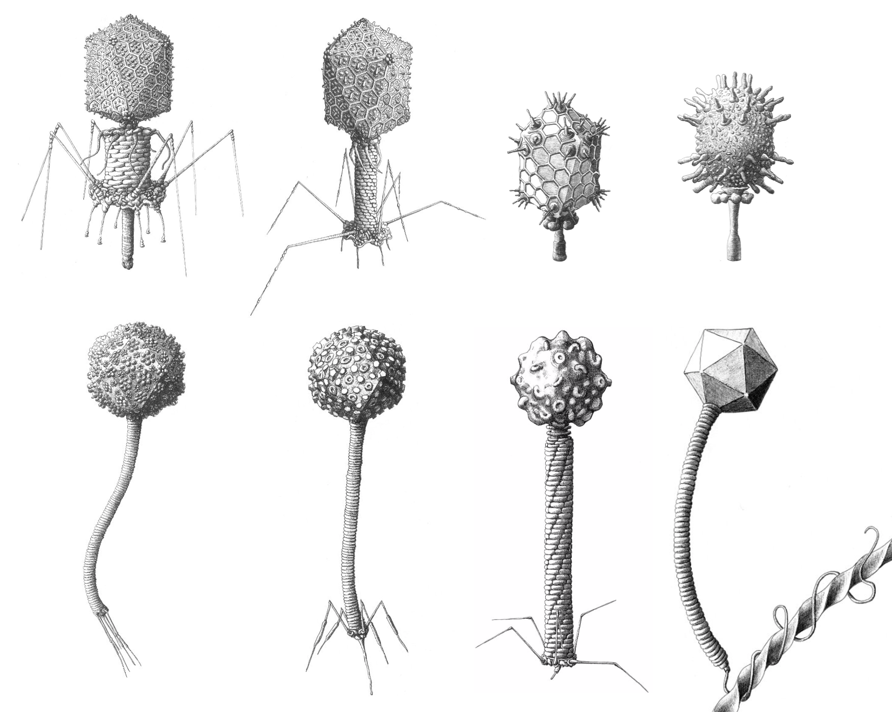 Illustrations of various Caudovirales. Not to scale.